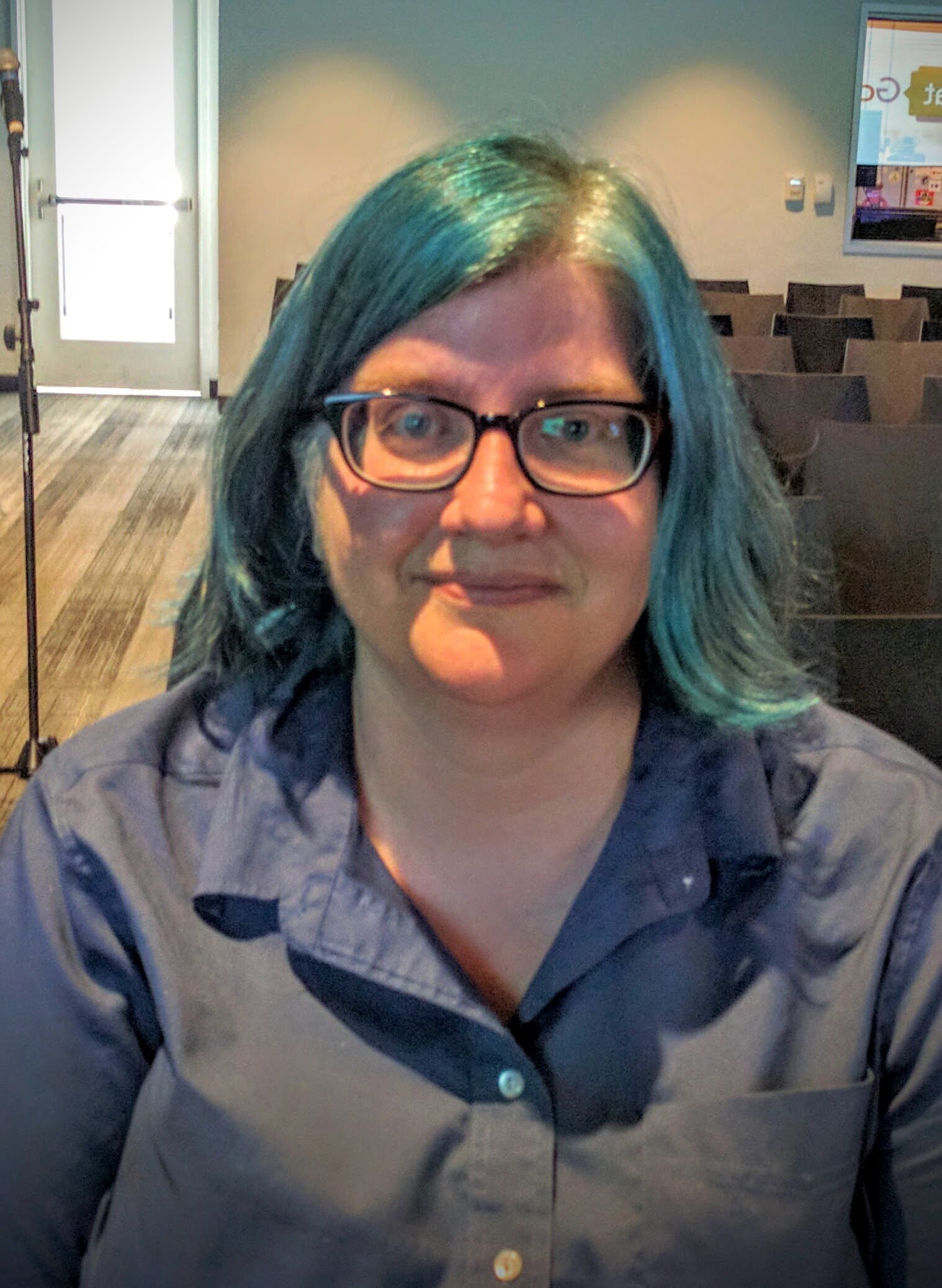 Cathy O'Neil, American mathematician and author, at Google Cambridge to speak about her book Weapons of Math Destruction